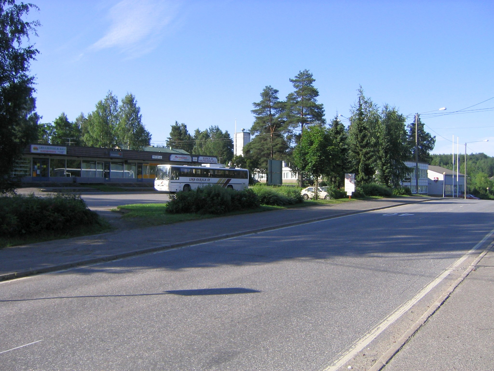 Regional road 484 in Hammaslahti, Joensuu, Finland